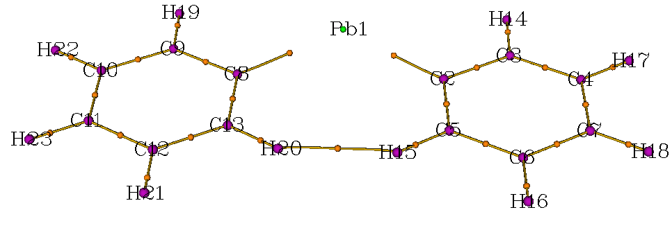 Diphenyllead plumbylene AIM molecular graph